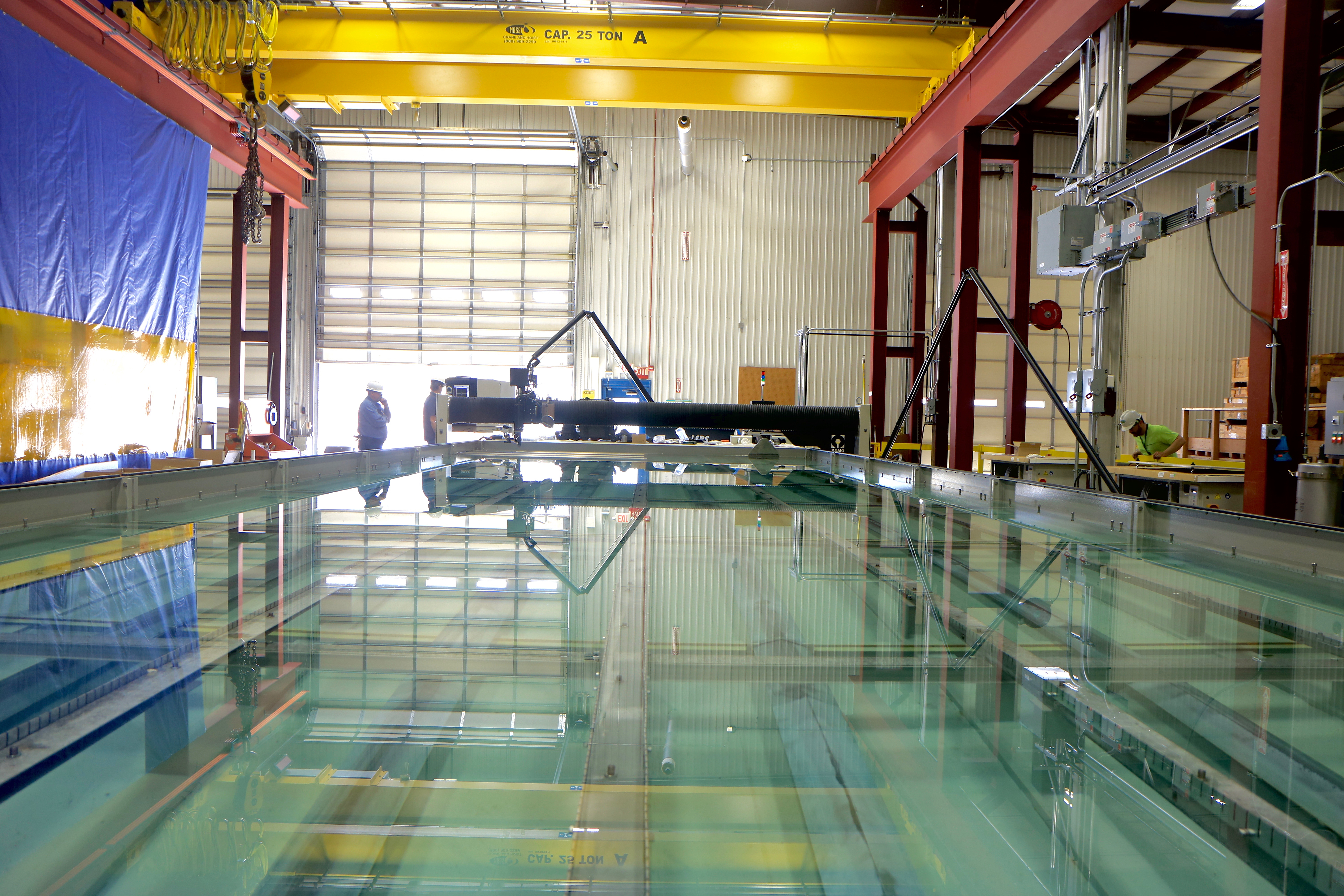 Large Water Jet Abrasive Cutting Machine. Westinghouse. Newington, NH.